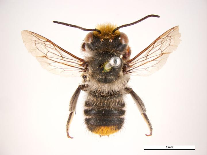 Megachile chrysopygopsis male